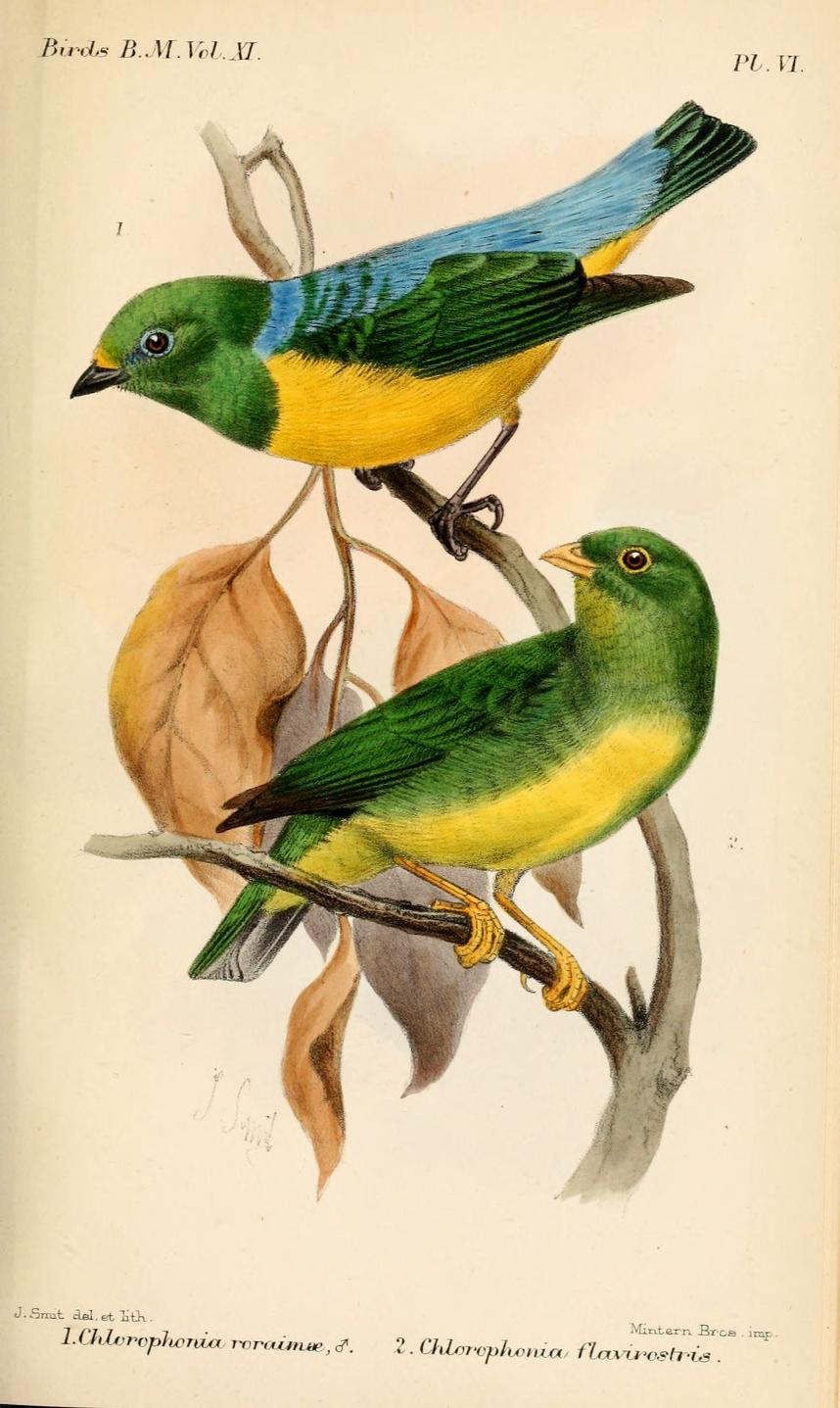 Blue-naped Chlorophonia (above), Yellow-collared Chlorophonia (below)